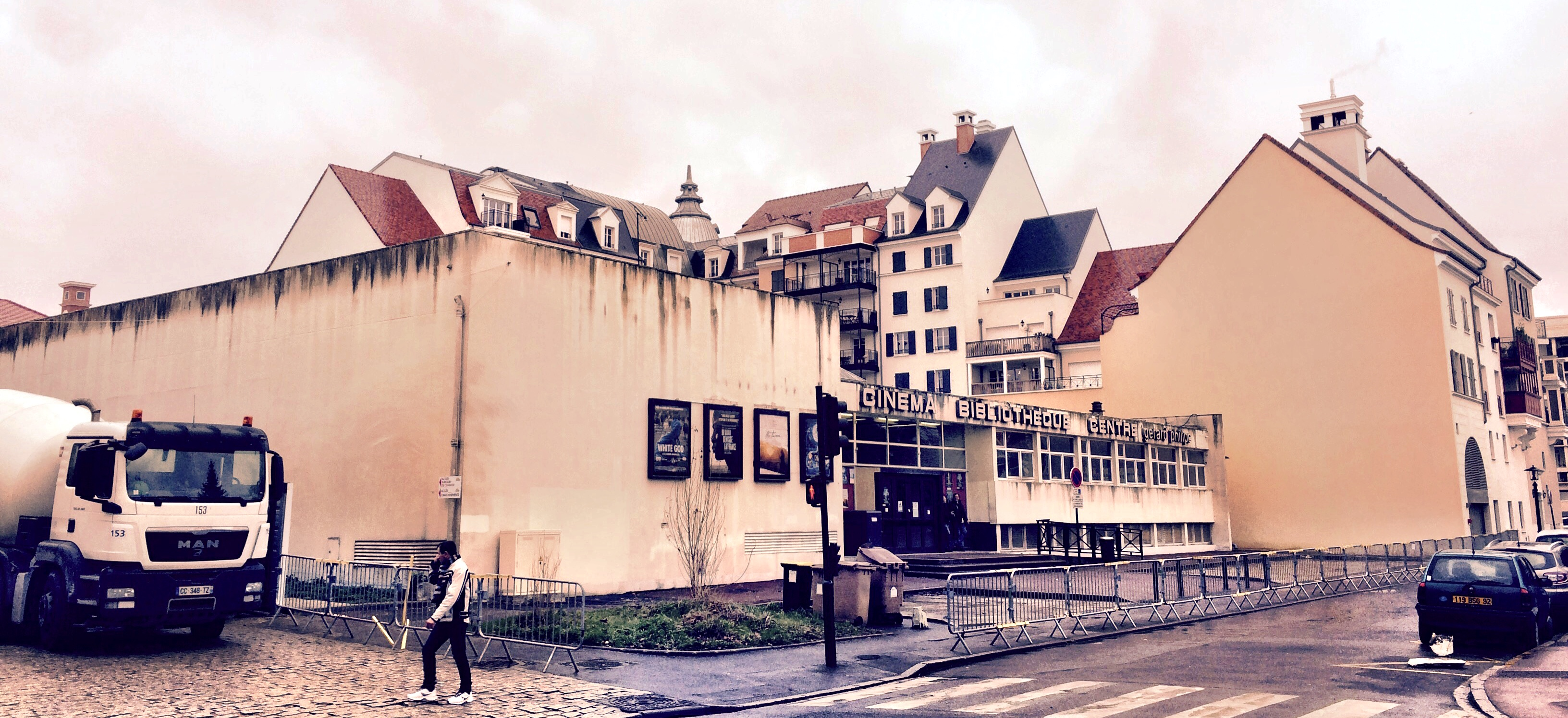 Vue du côté du cinéma Gérard Philippe du Plessis-Robinson